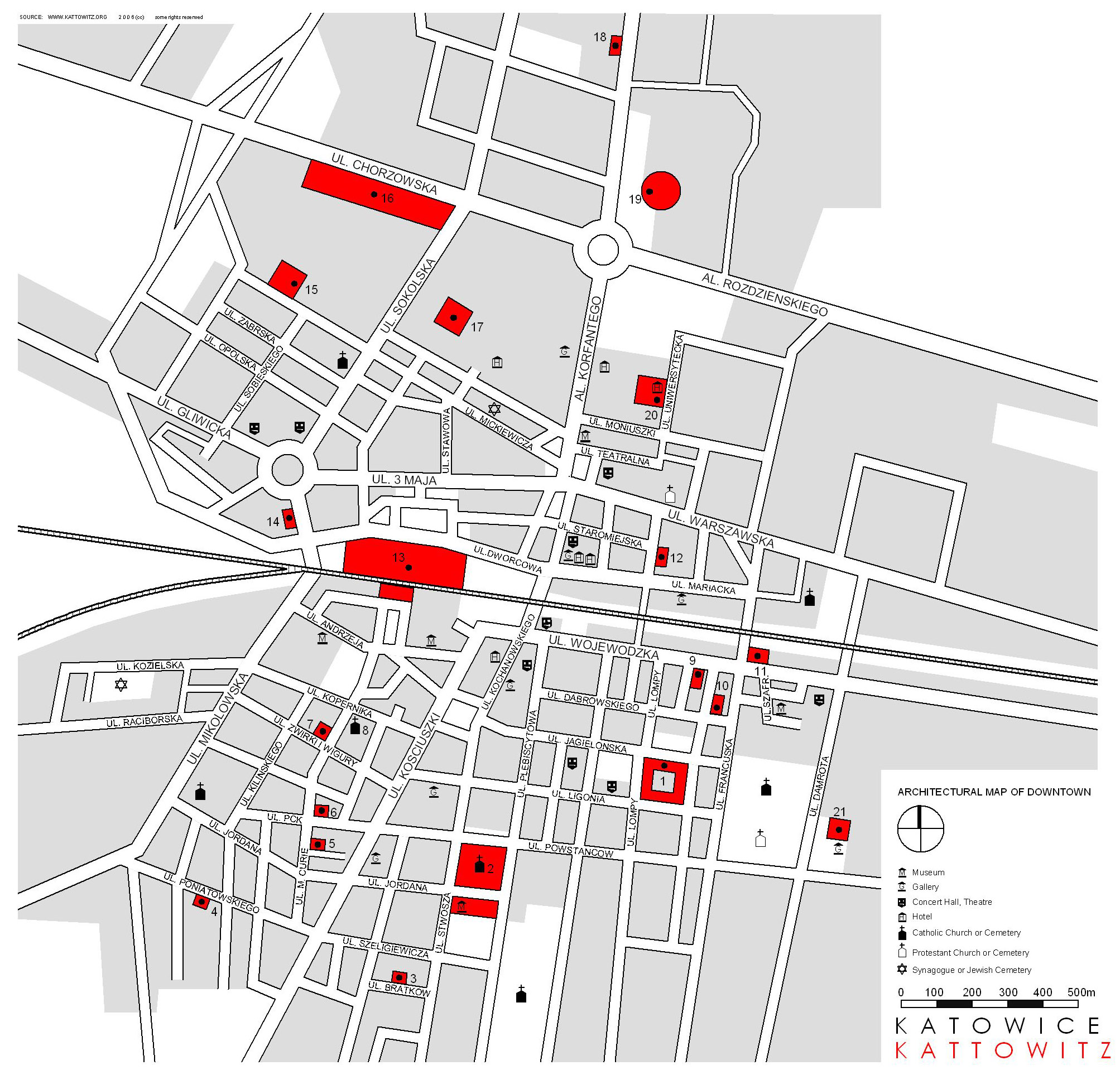 Architectural map of central Katowice 1. Silesian Parliament, ul. Jagiellonska 1, L. Wojtyczko, 1923-1929 2. Cathedral, Z. Gawlik and F. Maczynski 1927 3. Private House ul. Bratkow 4, T. Michejda 1930 4. Private House, ul. Poniatowskiego 19, T. Michejda 1926 5. Residential Building, ul. Rymera 7, H. Schmidtke, 1937 6. Residential Building, ul. PCK 10, 1937 7. Inland Revenue Office and Residential Building, ul Żwirki i Wigury 15, T. Kozłowski, 1929-1930 8. Church of Saint Kazimierz, L. Dietz d'Arma, 1930 9. Professors Apartments, ul. Wojewódzka 23, E. Chmielewski, 1929 10. Residential Building, ul. Dąbrowskiego 24, K. Schayer 1936 11. Silesian Library (Old), ul. Francuska 12, S. Tabenski, J. Rybicki, 1928 12. NBP (originally International Trading Bank), ul. Mieleckiego 10, K. Schayer, 1936 13. Main Railway Station, E. Wierzbicki 1965-1972 14. Zorza Cinema, ul. Matejki 3, Z. Rzepecki 1936 15. Stalexport Building, G. Gruicic, 1981 16. Silesian Bank, ul. Sokolska, Denton Corker Marshal Architects, 2000 17. CITI Bank, ul. Sokolska, Architekten A. Kapuscik Wien, 1995 18. Residential Building, al. Korfantego, K. Schayer 1934 19. Spodek, M. Gintowt 1974 20. Altus Building, ul. Uniwersytecka, Arkat and BA Reichel+Stauth 2001 21. Silesian Library (New), Pl. Rady Europy, ARAR Architects 1997